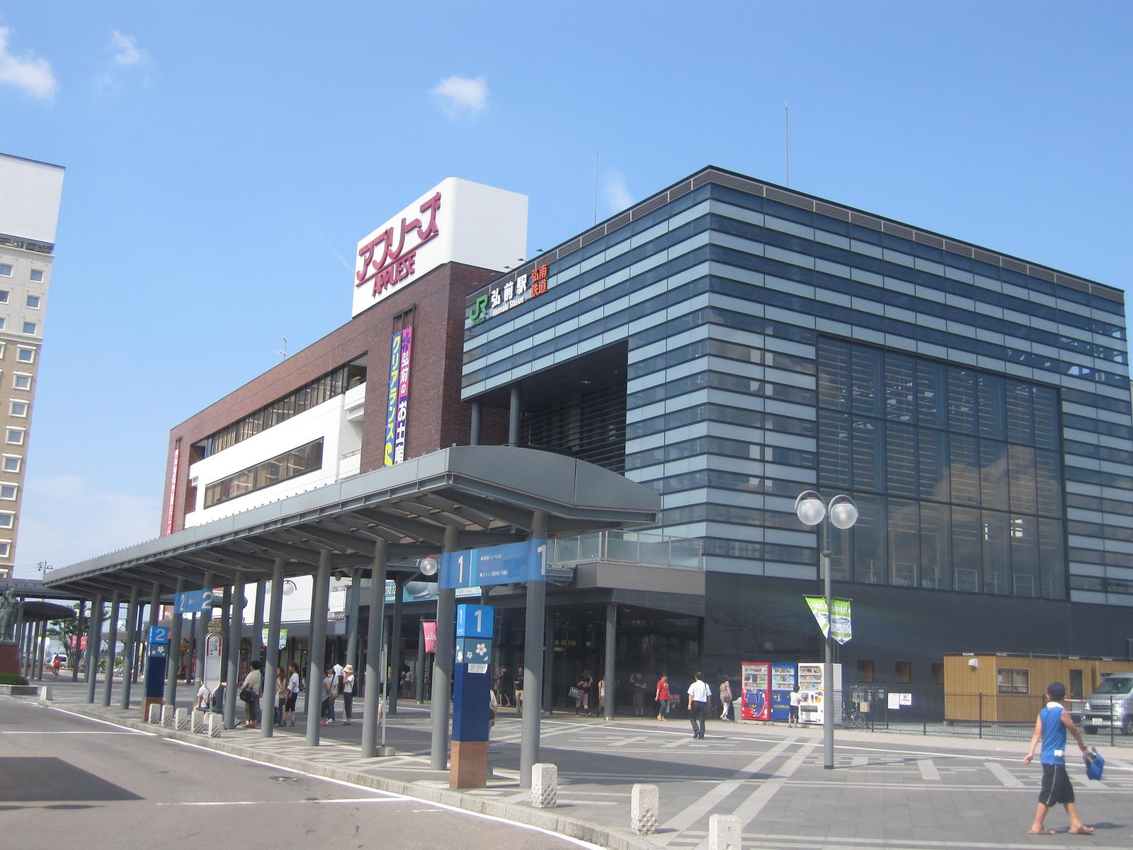 Hirosaki station